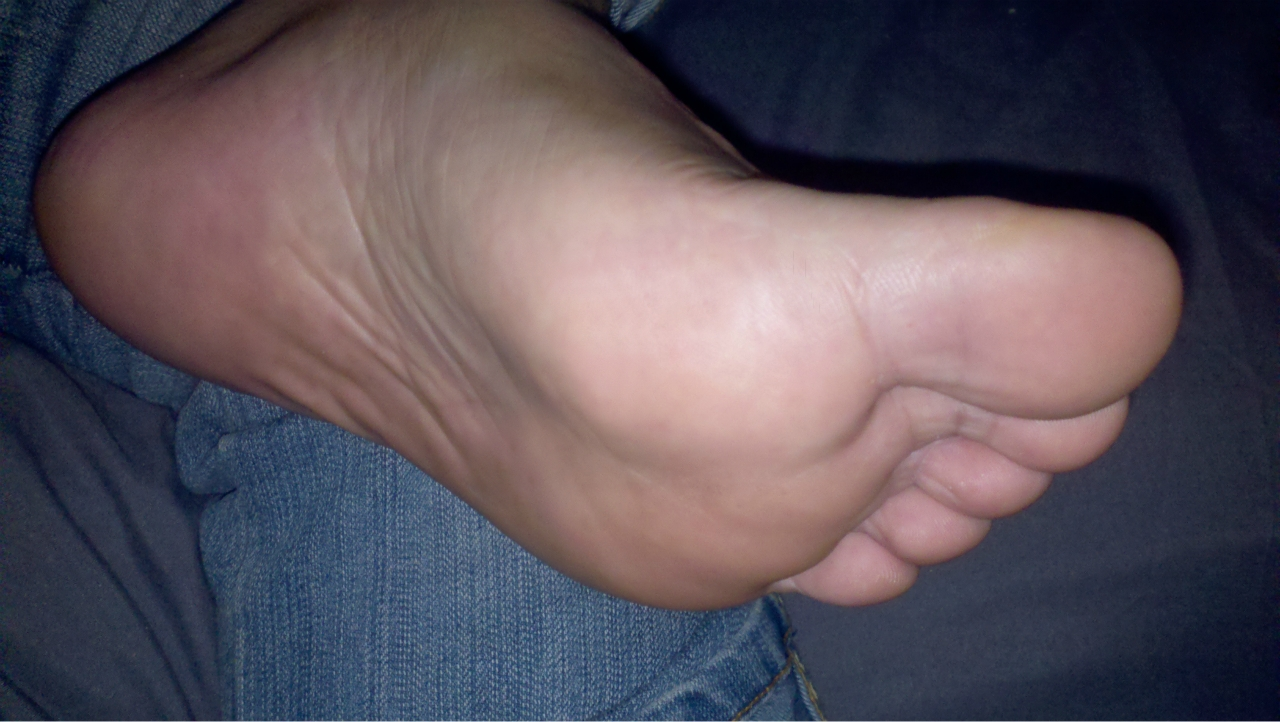 quick shot of the soles of my feet showing the softness